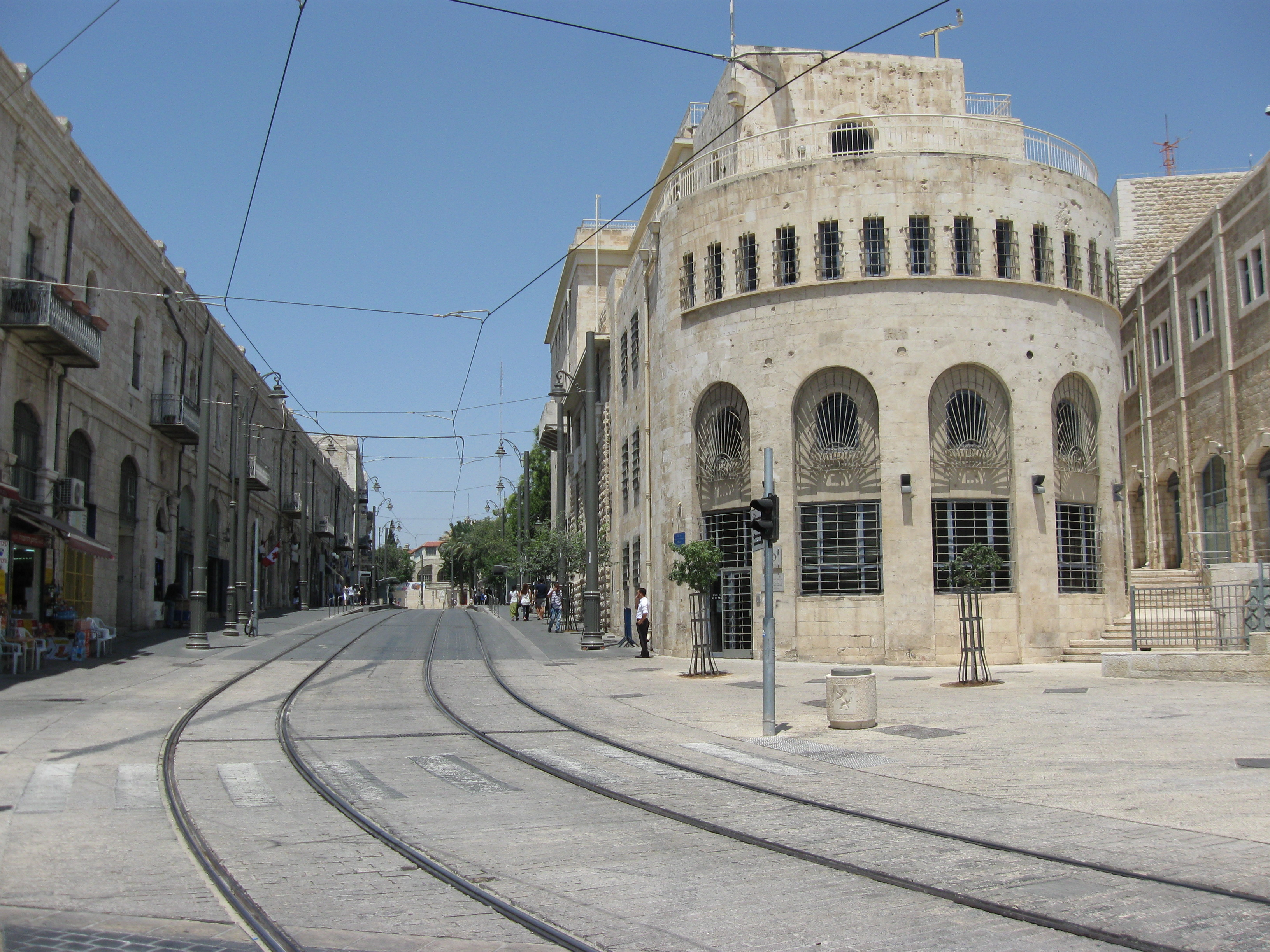 Tram line in Jerusalem, Yaffa Road